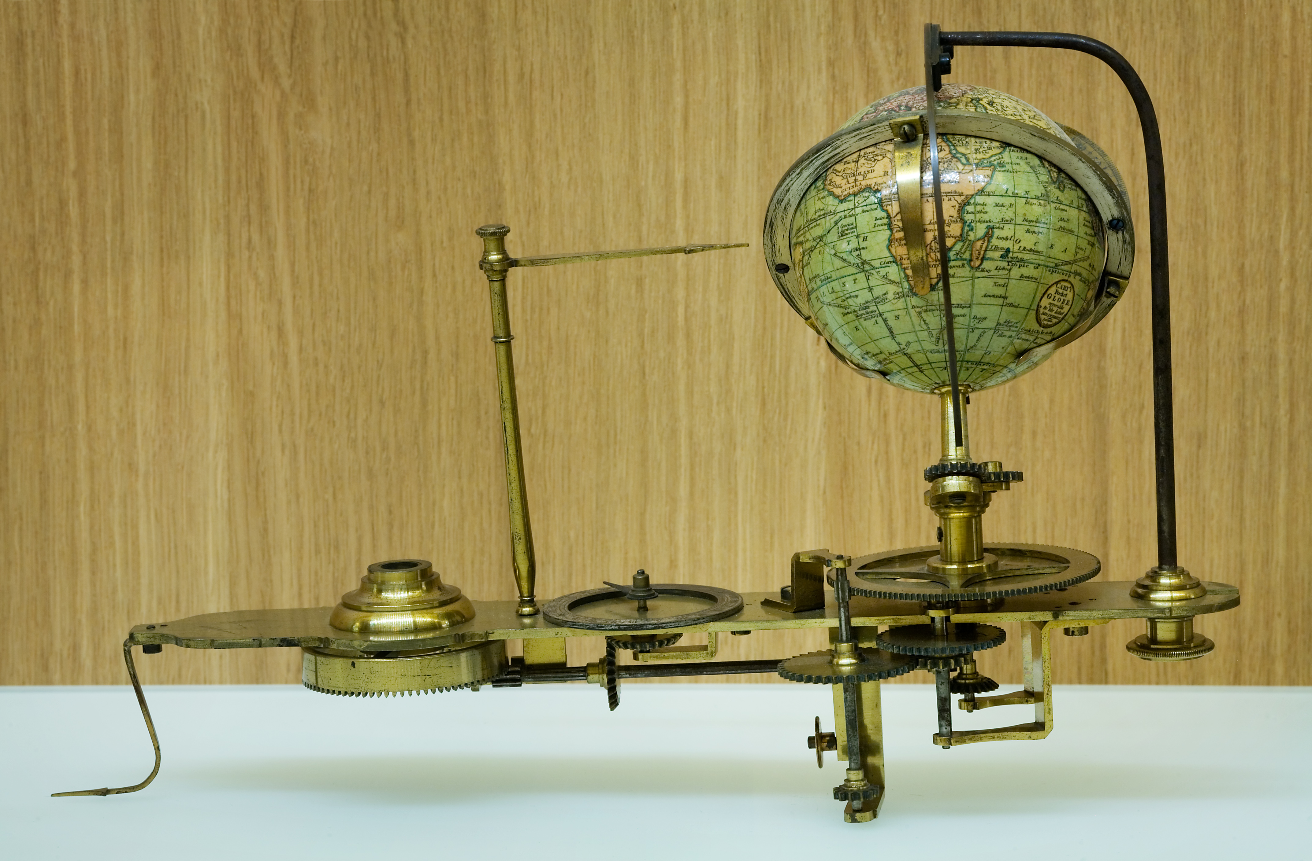 Cary's Pocket Globe: agreeable to the latest discoveries AC04850889. Built in 1794. Collection of the Gobenmuseum, Vienna, Austria.